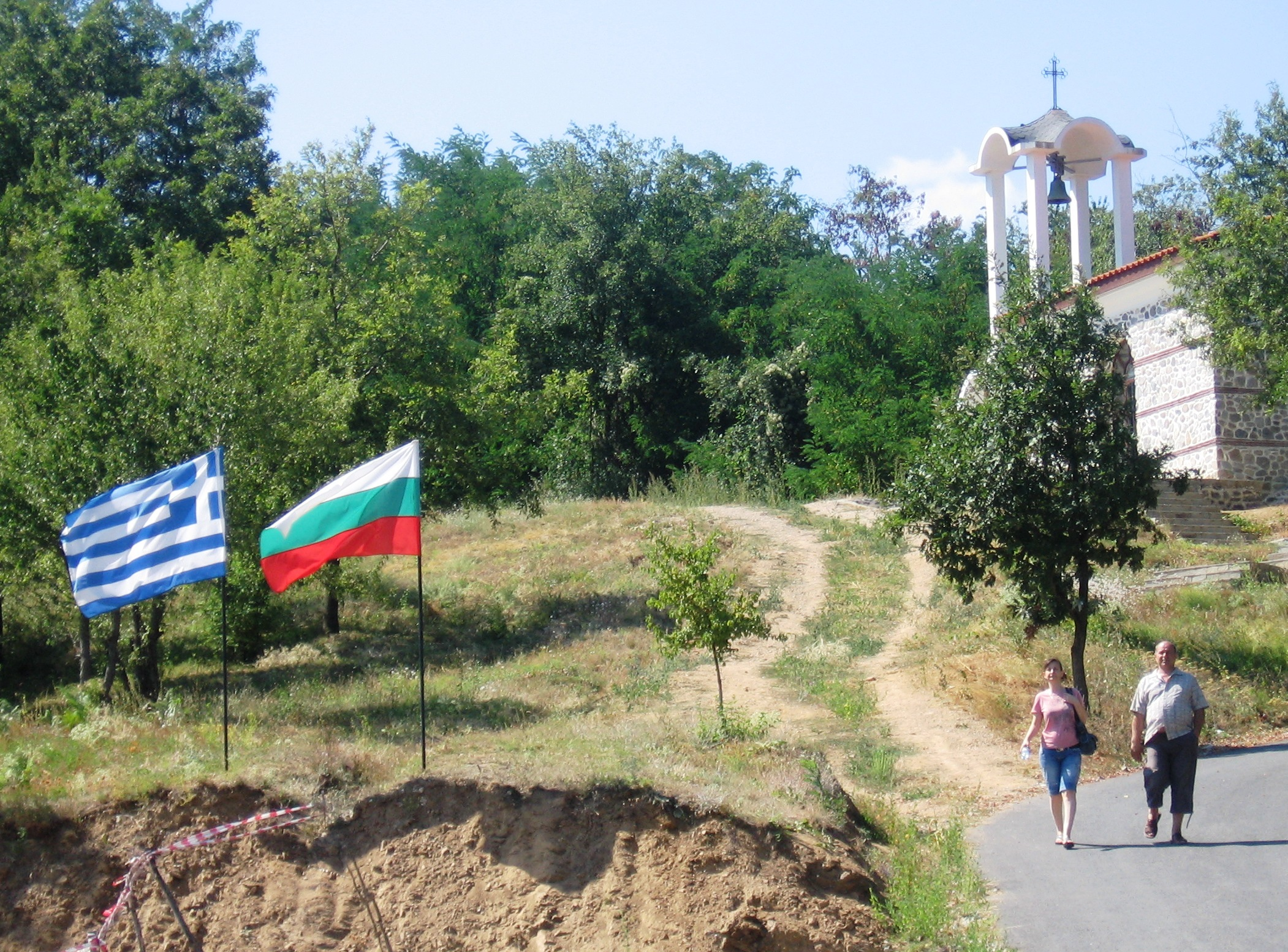 Kostadin Peak Border Pass between Bulgaria and Greece under contruction 2009.08.22